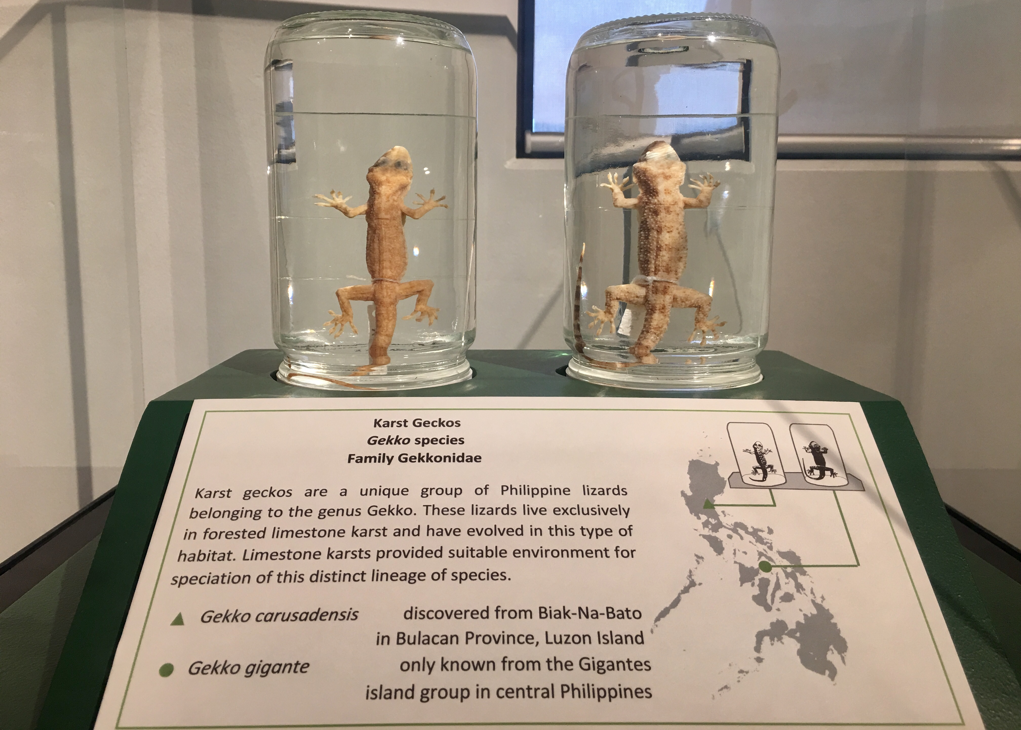 Preserved bodies of Luzon Karst Geckos at Philippine National Museum